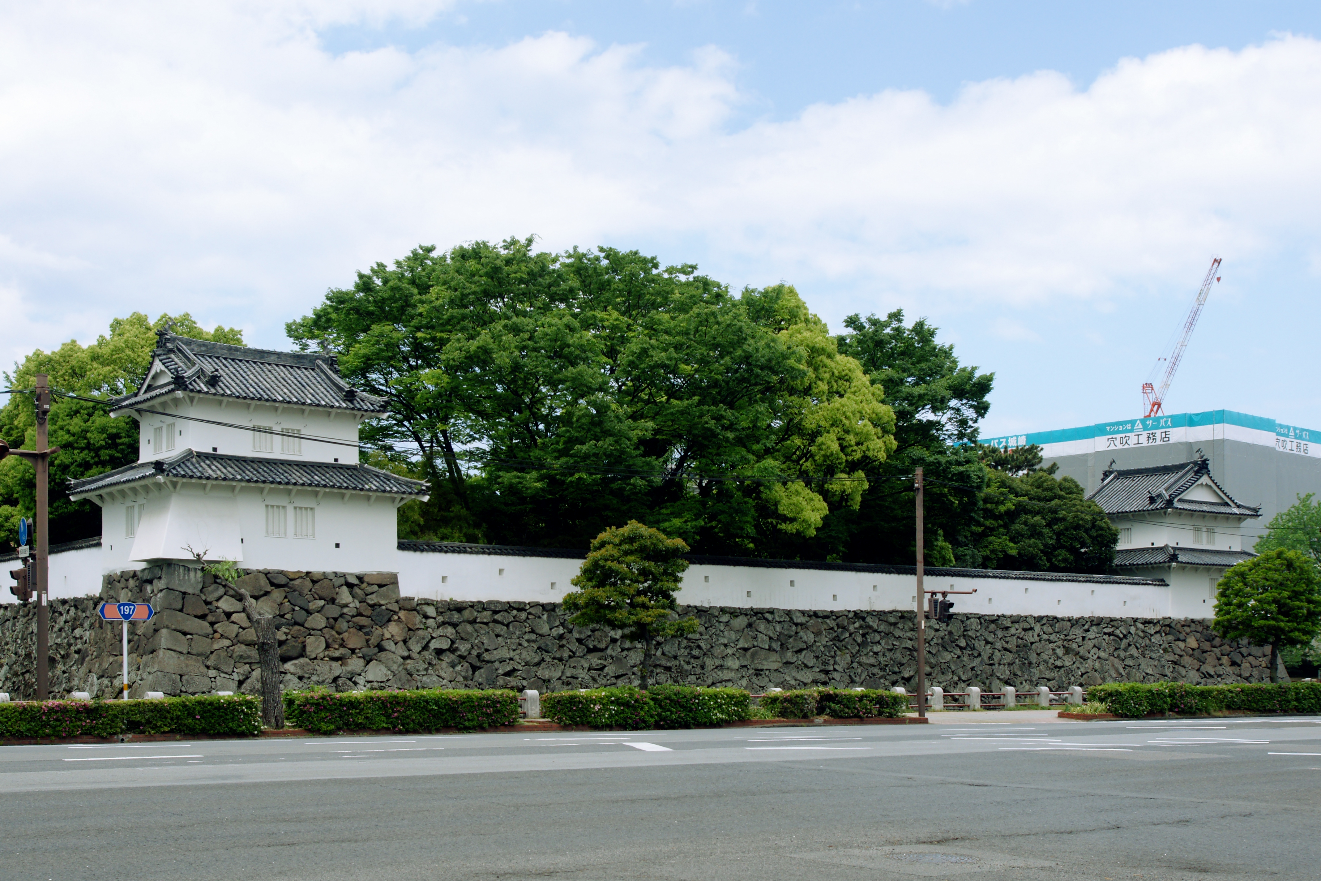 Funai Castle in Oita, Oita prefecture, Japan